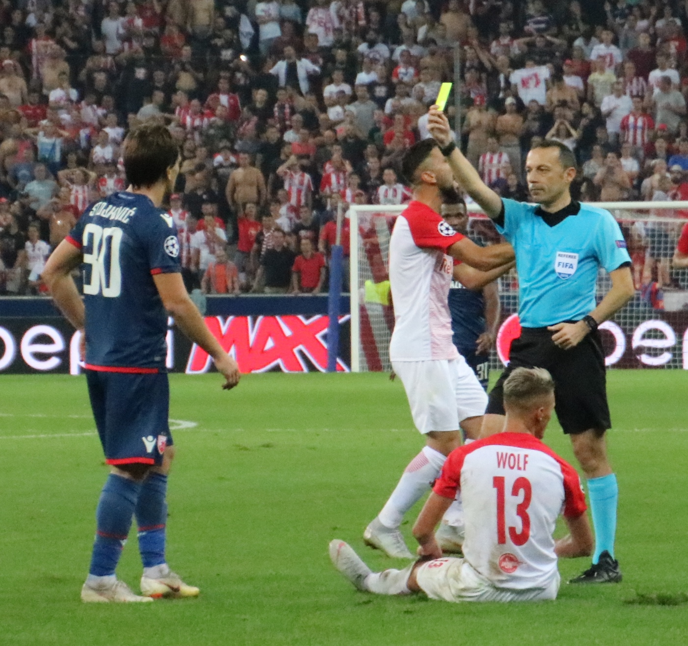 CL PLay off 29. August 2018 2nd leg